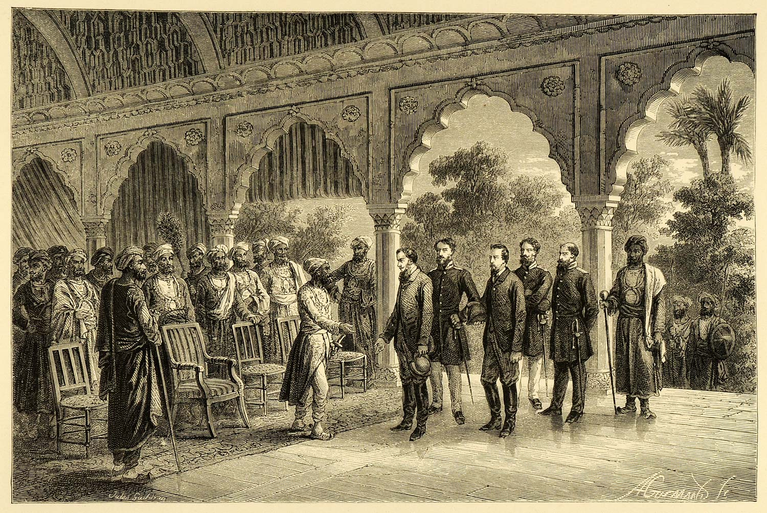 "First interview with the Maharajah of Jeypore," from 'India and its Native Princes' by Louis Rousselet, 1878; *a larger scan* Source: ebay, June 2007